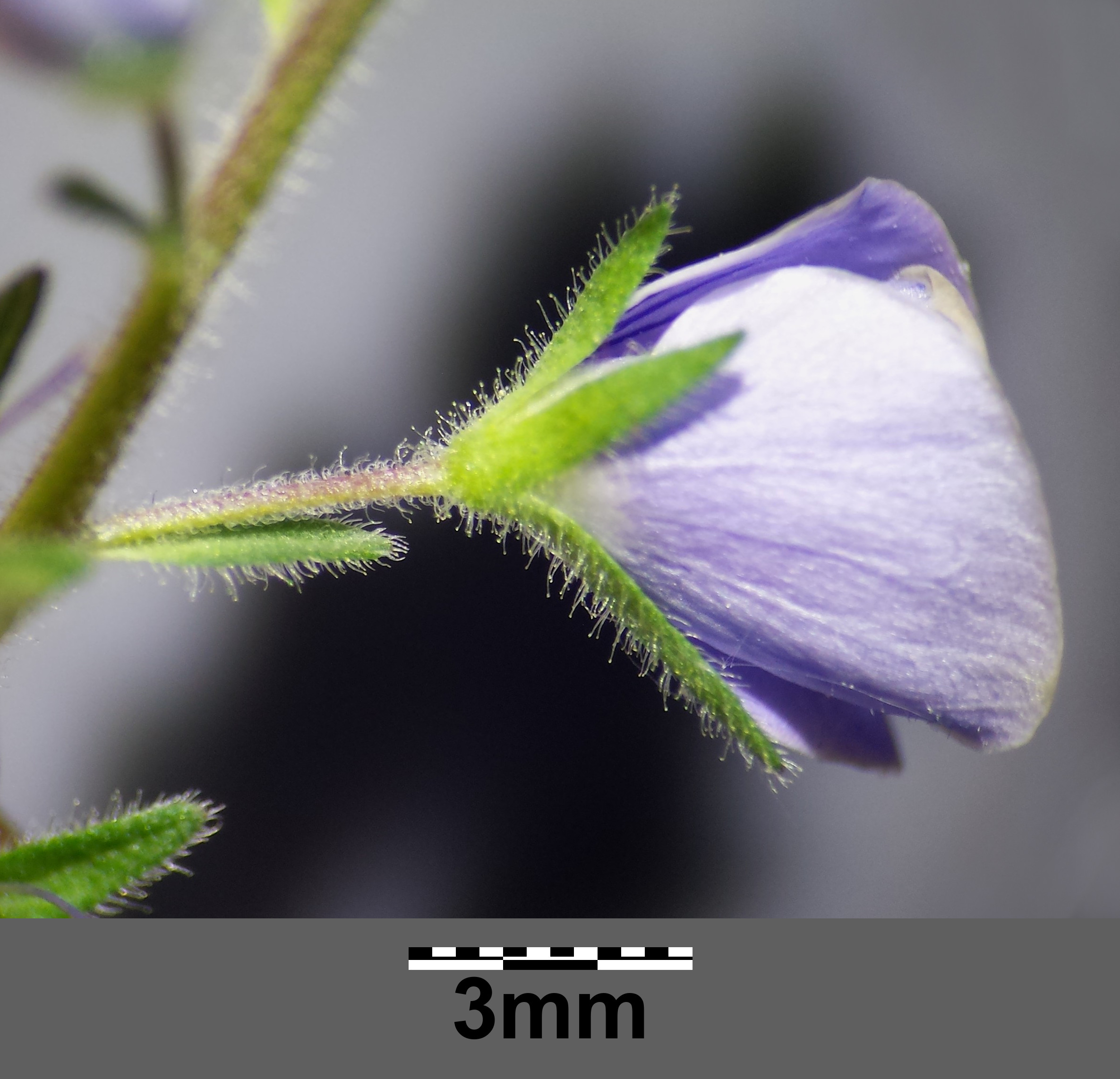 Flower, sepals with hairs Taxonym: Veronica vindobonensis ss Fischer et al. EfÖLS 2008 ISBN 978-3-85474-187-9 Location: between Michelberg and Steinberg near Niederhollabrunn, district Korneuburg, Lower Austria - ca. 300 m a.s.l. Habitat: semi-dry grassland